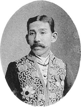 N. Hozumi, Professor of Jurisprudence.